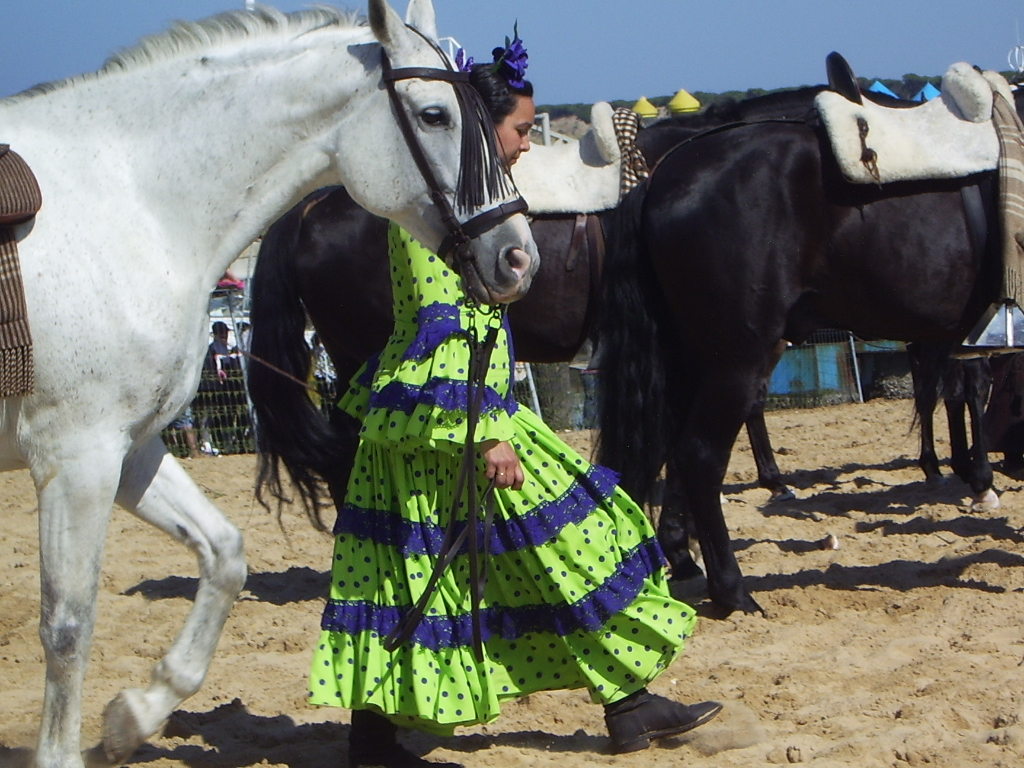 Pilgrim woman with her horse goes to board. Pilgrimage of El Rocio, shipment of the brotherhoods in Sanlúcar towards Doñana, May 2009.